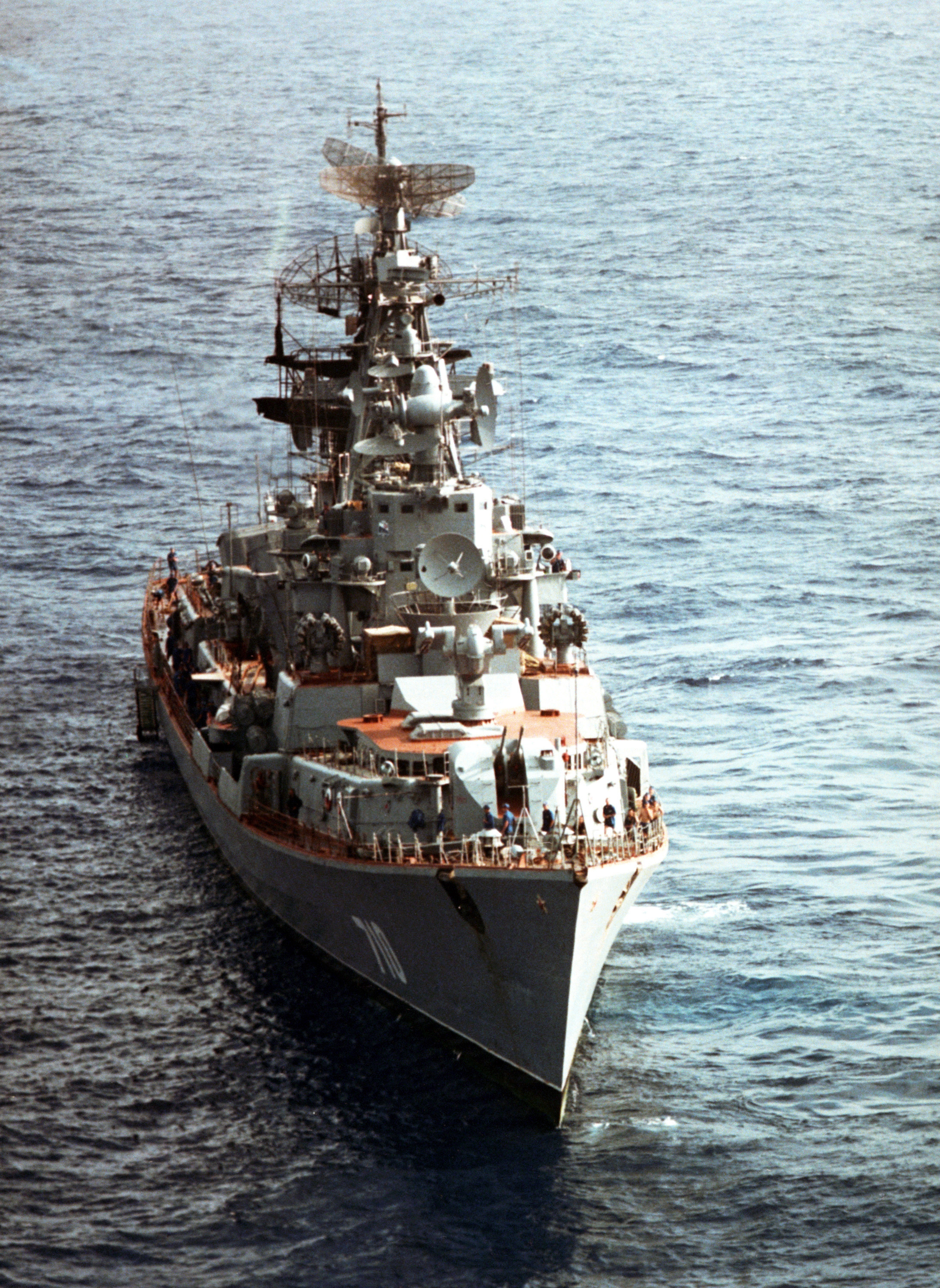 Aerial starboard bow view of the Soviet Kashin class guided missile destroyer USSR Krasnyy Kavkaz underway. (SUBSTANDARD)